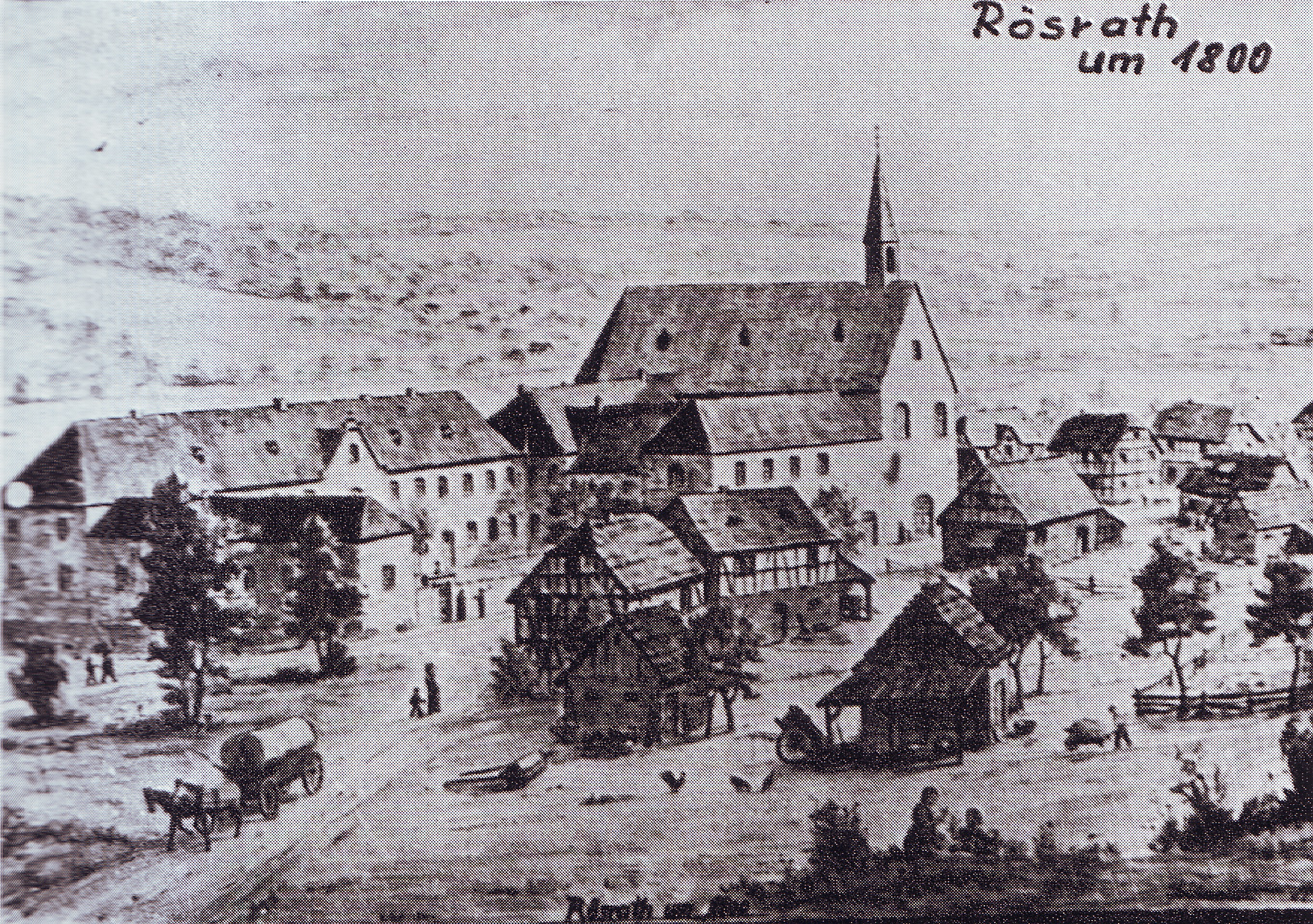 Old view of Rösrath about 1800